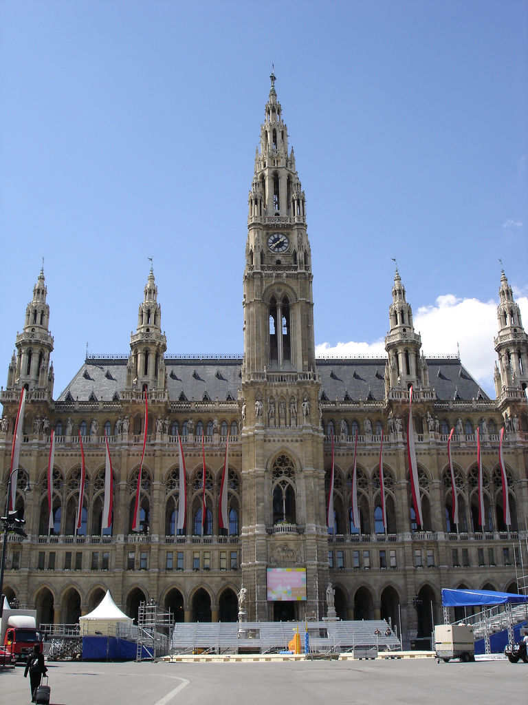 Town Hall, Vienna, Austria